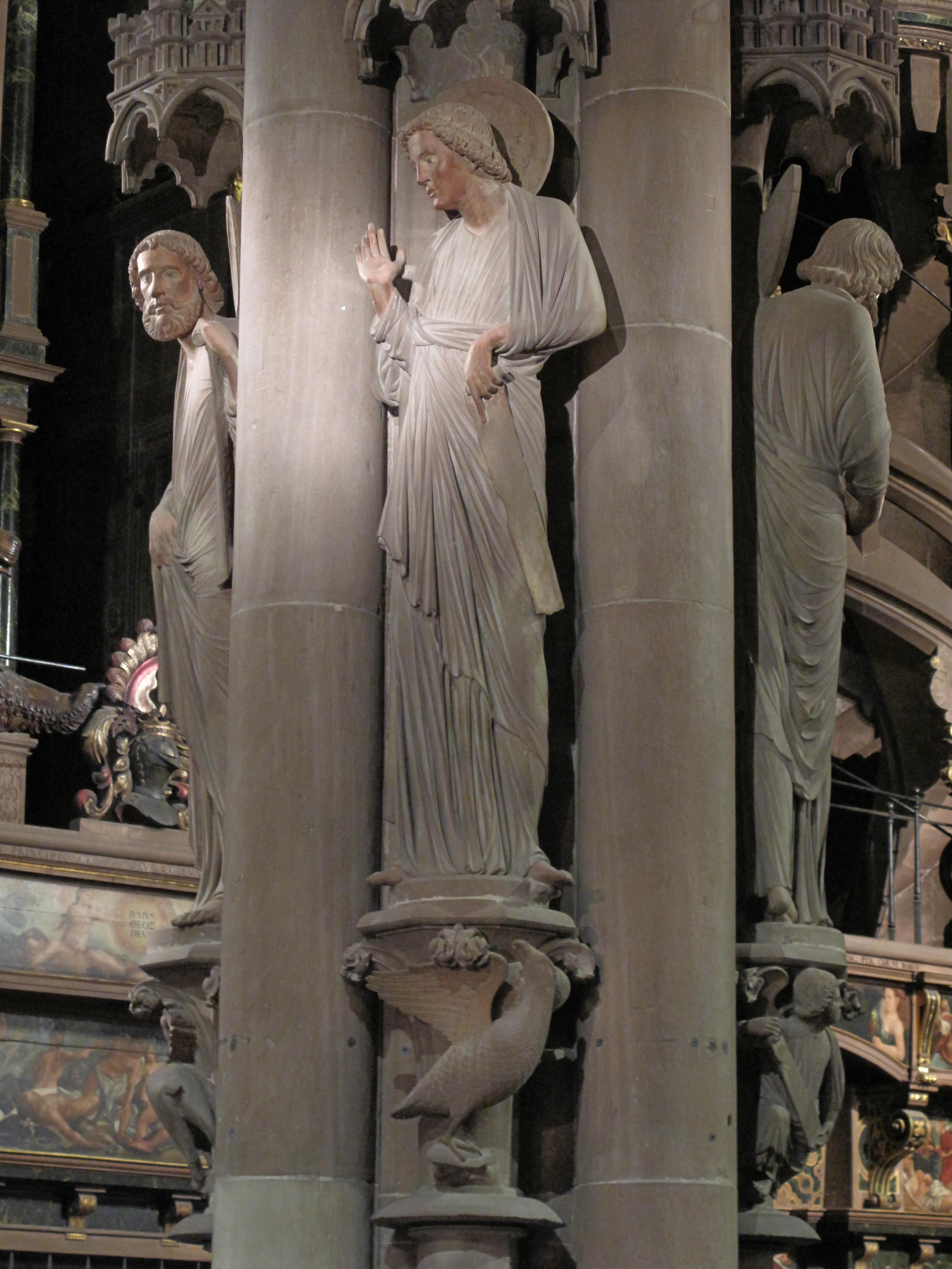 Statue of Saint John the Evangelist and his eagle on the pillar of angels in the cathedral of Strasbourg, France.